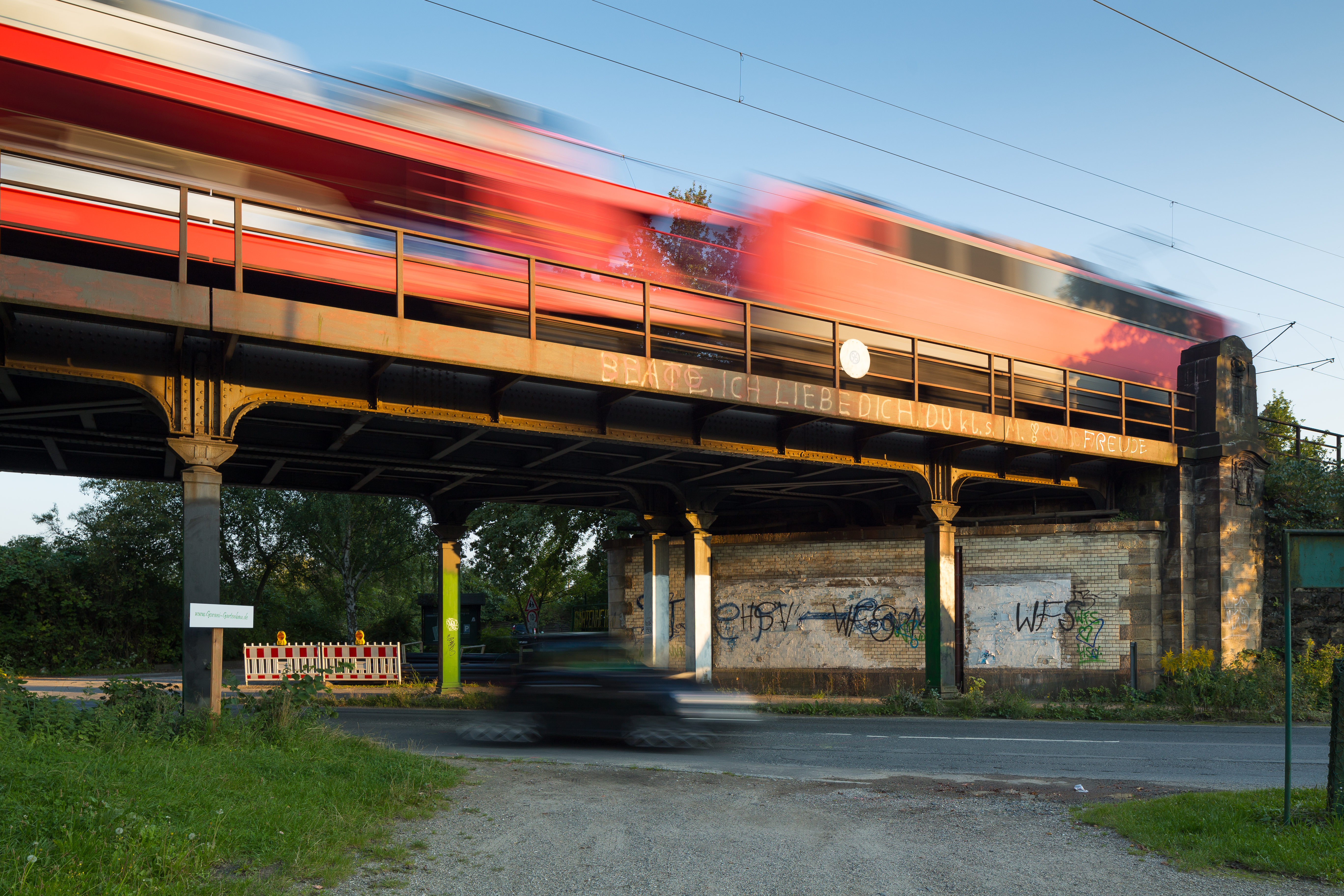 Railroad bridge crossing Lange-Feld-Strasse in Kirchrode district of Hanover, Germany.